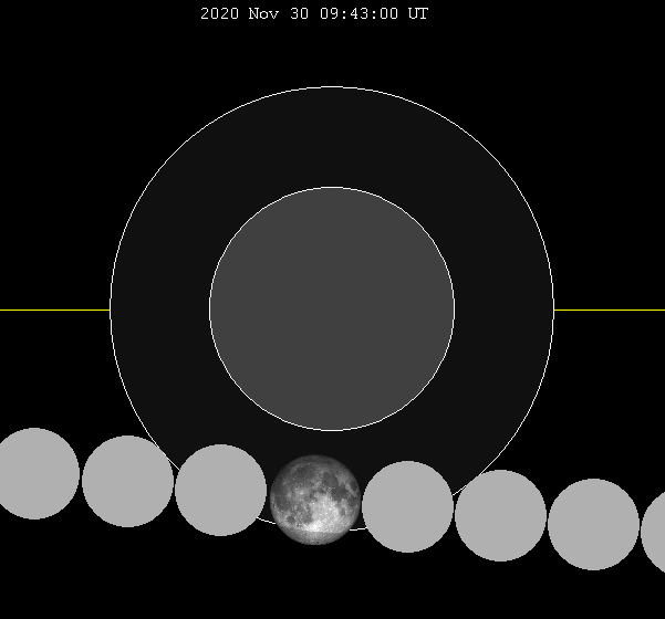 November 2020 lunar eclipse chart of moon's total lunar eclipse path through the earth's shadow. thumb